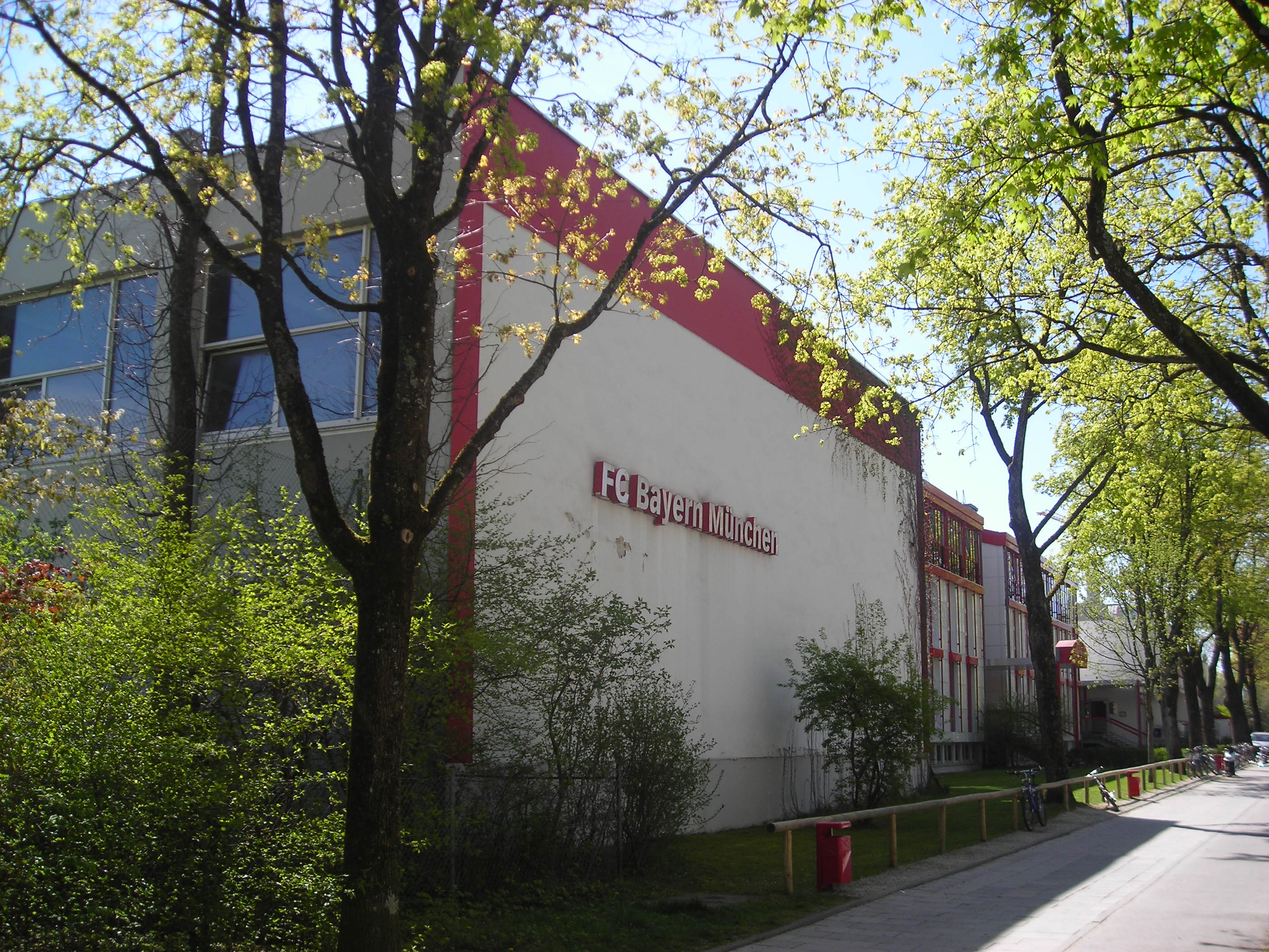 FC Bayern München main buiding, Säbener Str. 53, München, Germany (partial view).